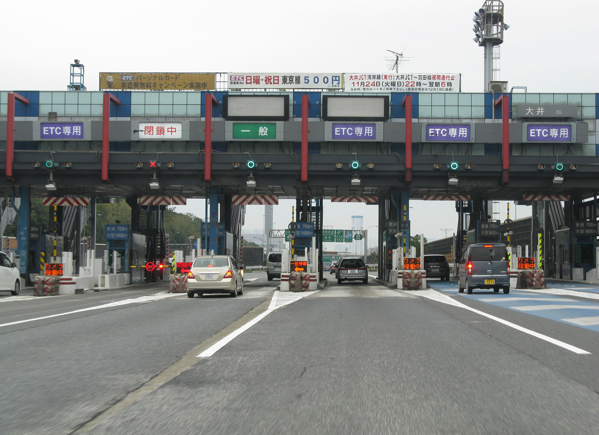 I took this photo.